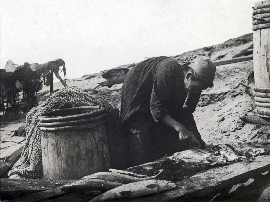 cutting fish in yakutia. Beginning of the 20th c. Yakutia.